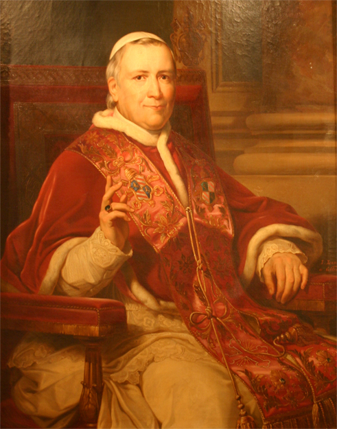 Pope Pius IX, born 1792, died 1878, in office from 1846 to his death